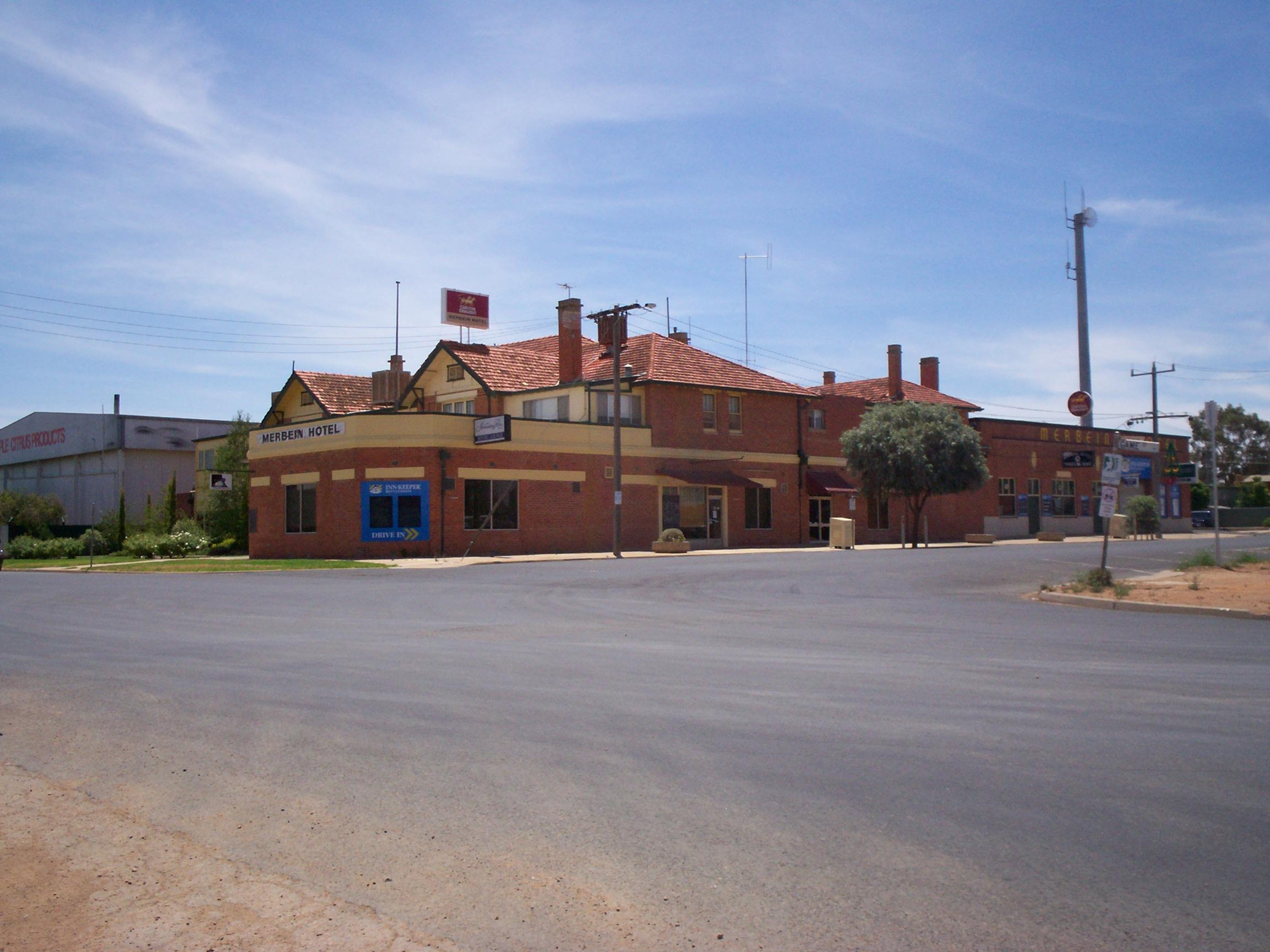 The Merbein Hotel Photograph taken by myself, December 23, 2006